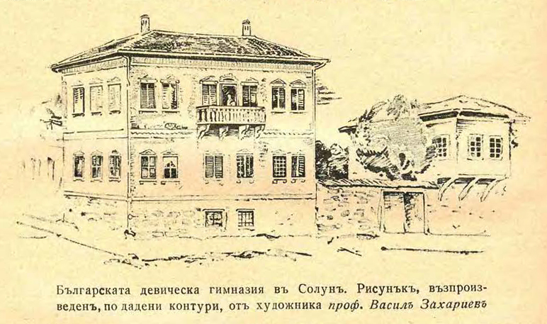 Girls bulgarian high school, Salonika